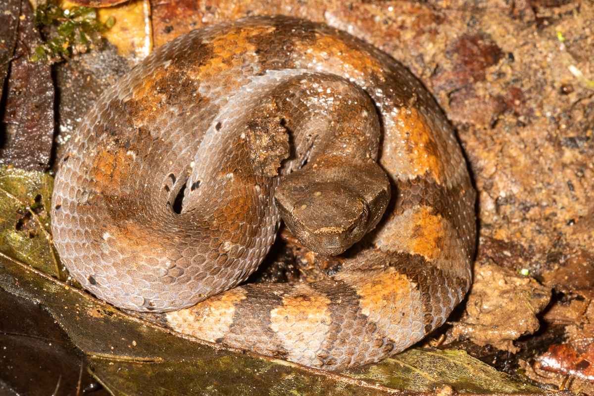 Amazonian Toad-headed Pitviper (Bothrocophias hyoprora). Species of reptile.